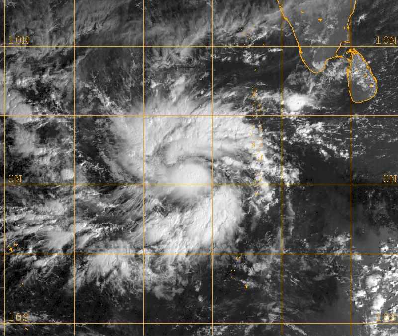 This MET-5 visible satellite image taken at 0400 UTC shows Agni as a developing tropical storm just north of the equator.